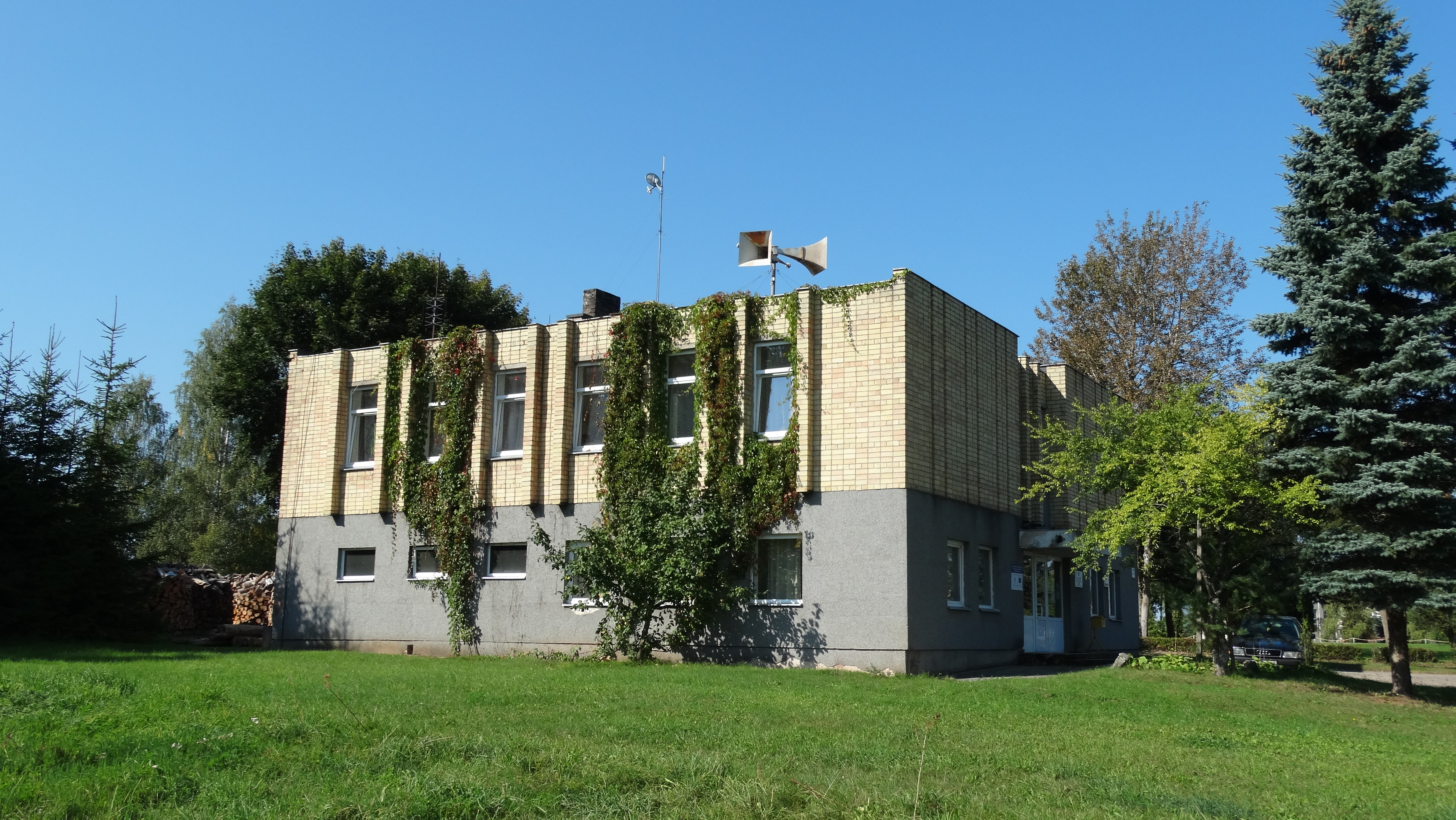 Eldership, Suviekas, Zarasai District, Lithuania